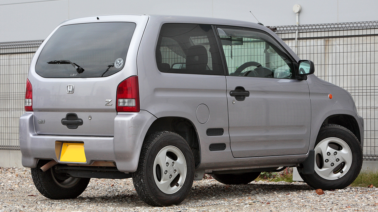 Honda Z Turbo ( FA1, 1998 - 2002 )